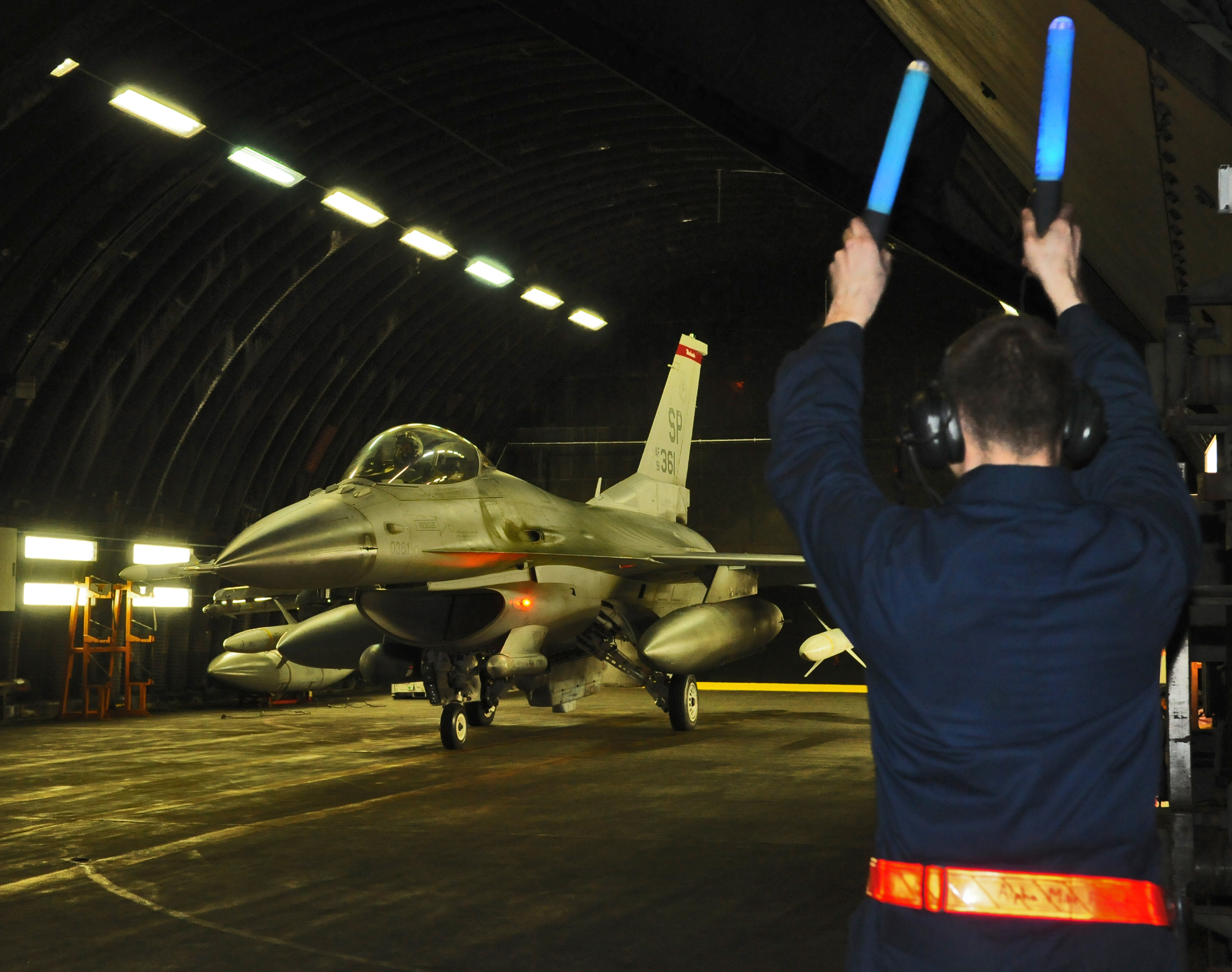 A 52nd Aircraft Maintenance Squadron crew chief marshals a U.S. Air Force F-16 Fighting Falcon fighter aircraft out of a hardened aircraft shelter at Spangdahlem Air Base, Germany, March 20, 2011, in support of Joint Task Force (JTF) Odyssey Dawn.